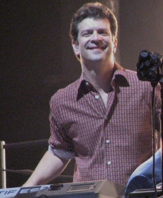 Musician David Rosenthal performing live with Billy Joel.